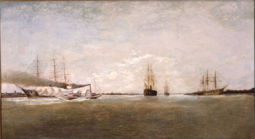 The Webb Running the Blocade, by William Lindsey Challoner, Louisiana State Museum